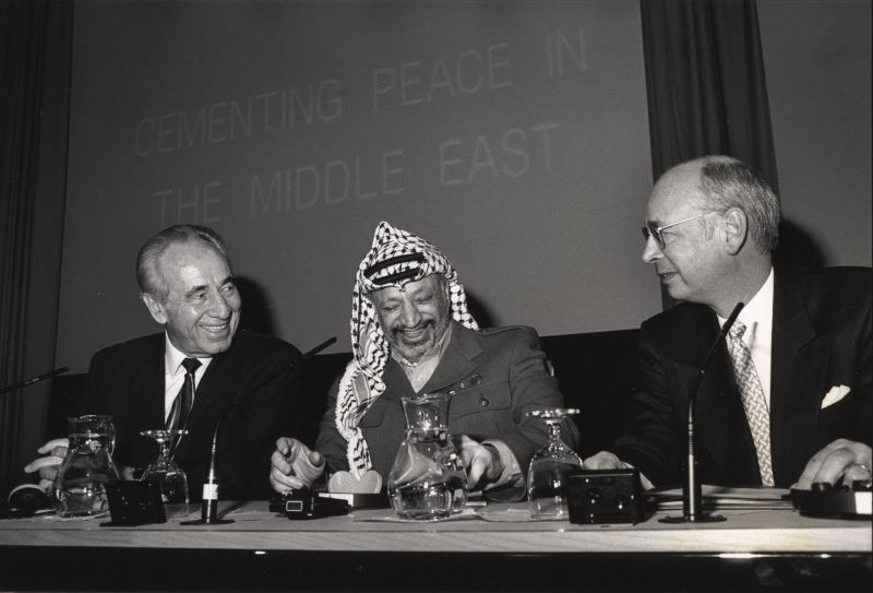 World Economic Forum Annual Meeting 1996 - Peres, Arafat & Schwab